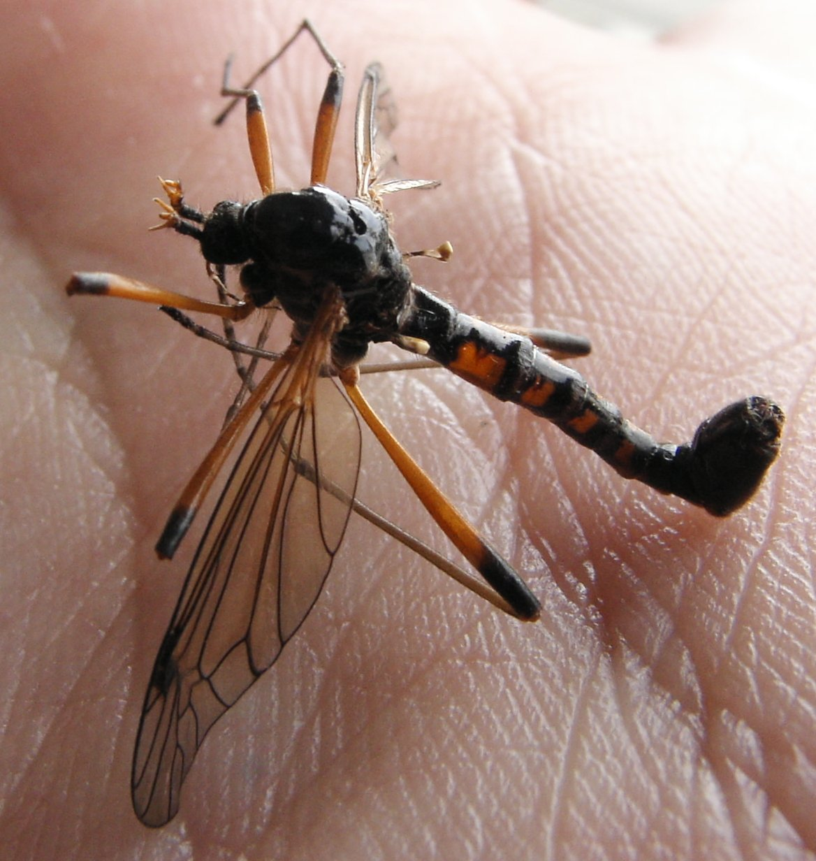 Dead male Tanyptera atrata from Nettetal, Germany. The specimen lost parts of its antennae due to transportation.